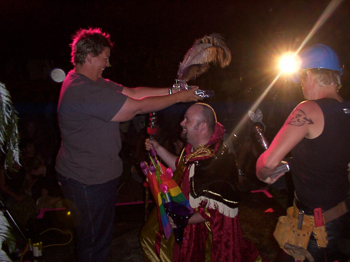 Crowning of the Queen, 31 December 2005.